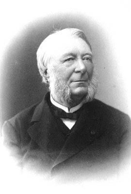 French historian and philologist Gaston Boissier (1823-1908)